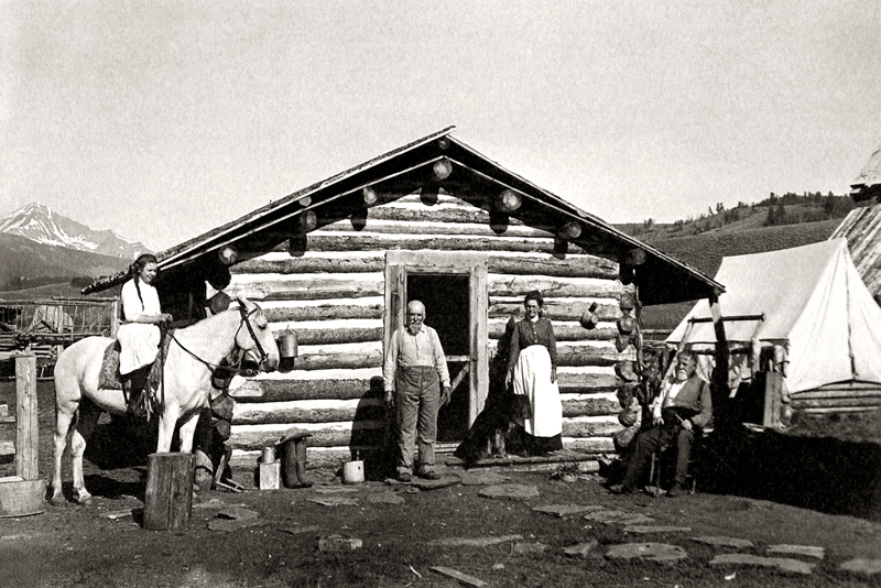 Lilian Crail on horseback, Frank and Sallie Crail, center, Abraham Creek (Sallie's father) right.